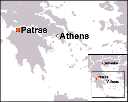 Map showing the location of the greek city of Patras in Greece and in relation to other greek cities.